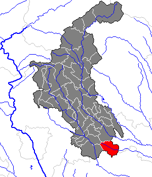 This map shows the area of the Gemeinde (municipality) Markt Hartmannsdorf in the Bezirk (district) Weiz, Styria, Austria.